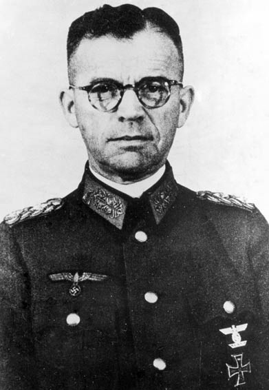 Фотография Фельгибеля